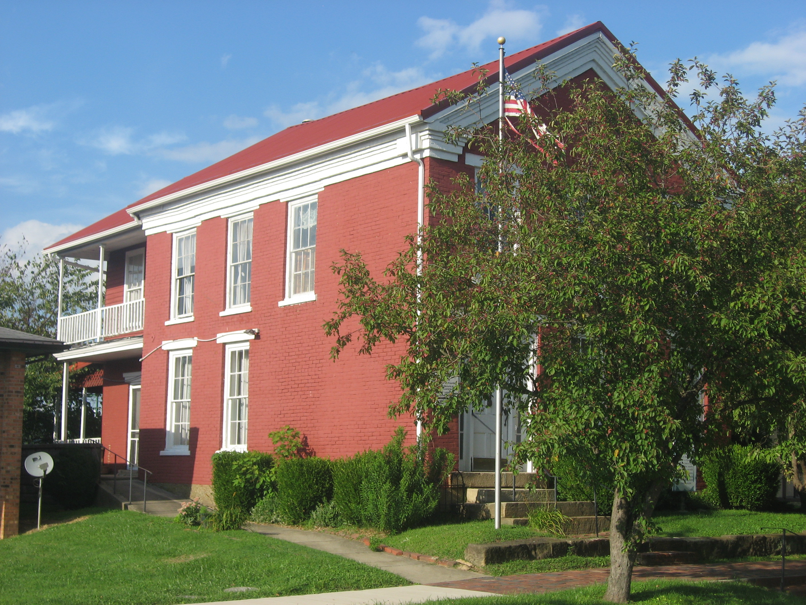 Western side and front of the Z. D. Ramsdell House, located at 1108 B Street in Kenova, West Virginia, United States. Built in 1855, it is listed on the National Register of Historic Places.